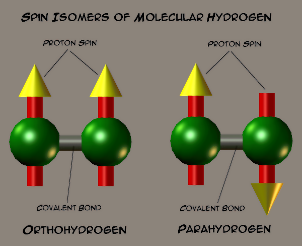 A simple image of spin isomers of molecular hydrogen.